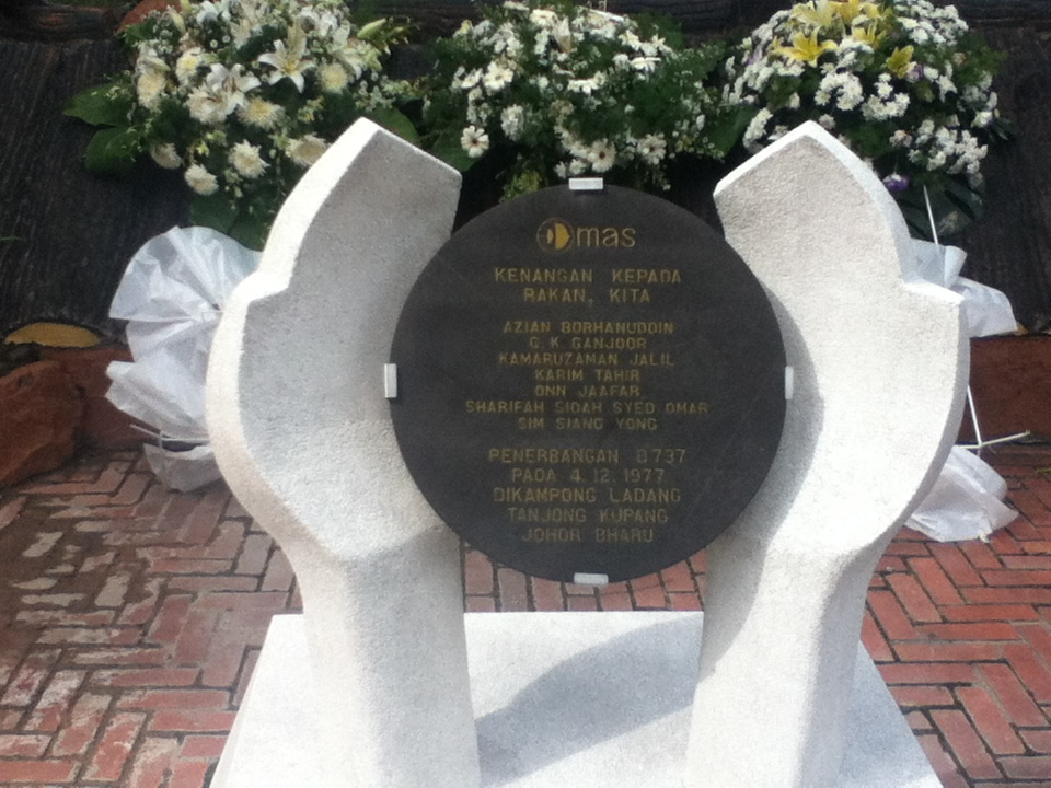 Built in memory of those killed in the Malaysia Airlines Flight 653, December 4th 1977. Located in MAS Complex A Subang. It reads (translated); IN MEMORY OF OUR FRIENDS, AZIAN BORHANUDDIN, G.K. GANJOOR, KAMARUZAMAN JALIL, KARIM TAHIR, ONN JAAFAR, SHARIFAH SIDAH SYED , OMAR, SIM SIANG YONG, FLIGHT B737 ON 4.12.1977 AT KAMPONG LADANG TANJUNG KUPANG JOHOR BHARU